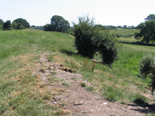 Wat's Dyke near Northop. Although the dyke at this point is not very impressive visually, it must have taken a lot of work to make it. For more info see Wat's Dyke